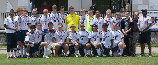 This is a picture of the Lower State Championship winning GSSM team of 2012.